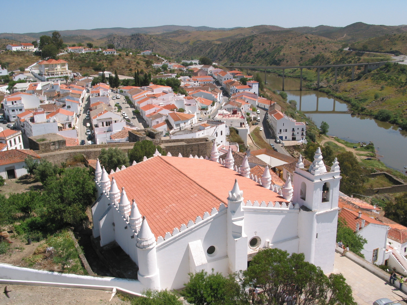 View of Mértola, Portugal